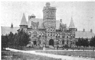 Marquette Barnch Prison, Marquette MI